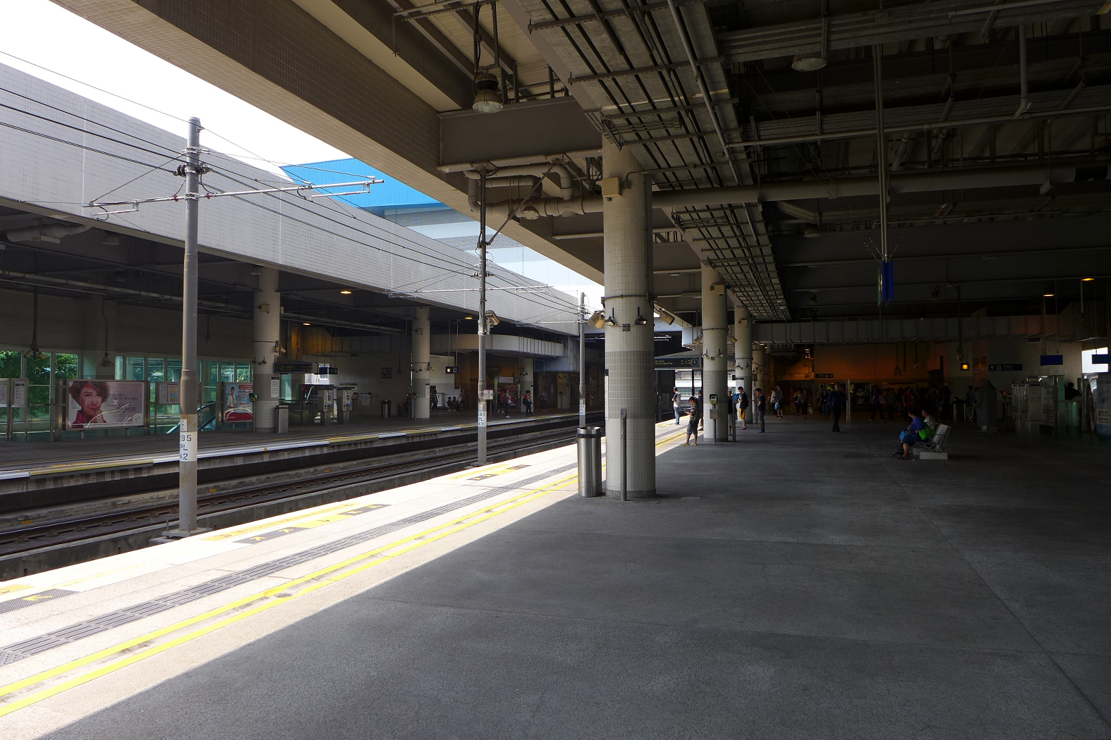 MTR Light Rail Tuen Mun stop platforms